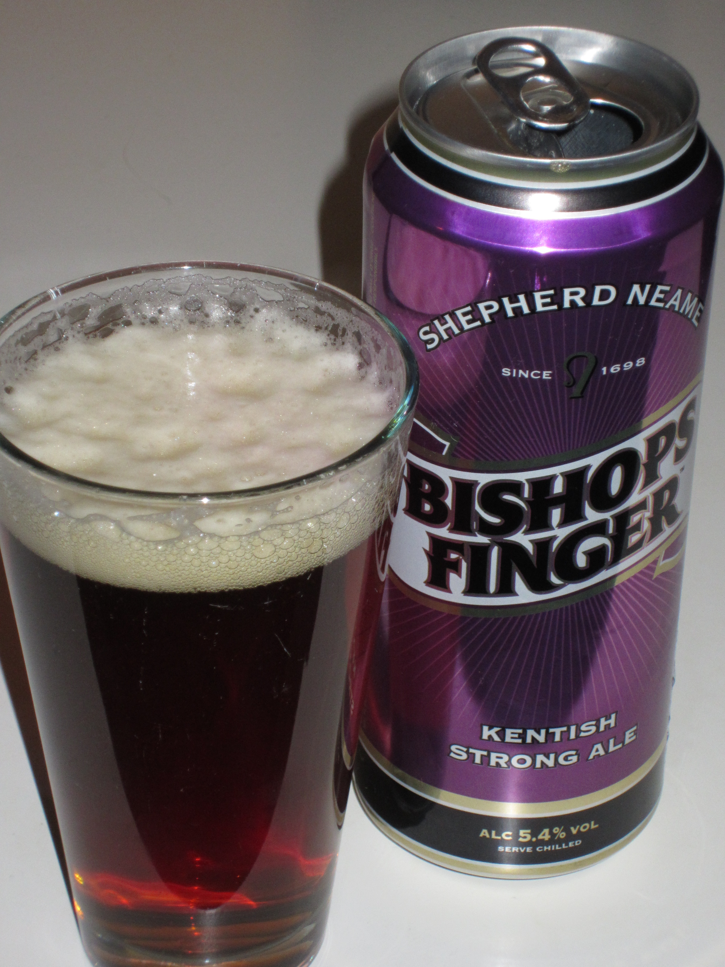 Bishop's Finger (a British beer). Brewed by Shepherd Neame Brewery.